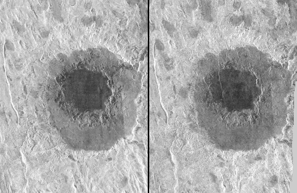 Crosseye-view stereogram of Cleopatra crater on Venus. Made from Magellan radar images, which were made in Left-Look and Stereo-Look mode. Left image was obtained with incidence angle (measured from vertical line) about 26.0°, right one with 33.4° (Guide to Magellan Image Interpretation, chapter 4, Table 4-1, chapter 5, The Geometry of Radar Imaging). Image size is 140×180 km.